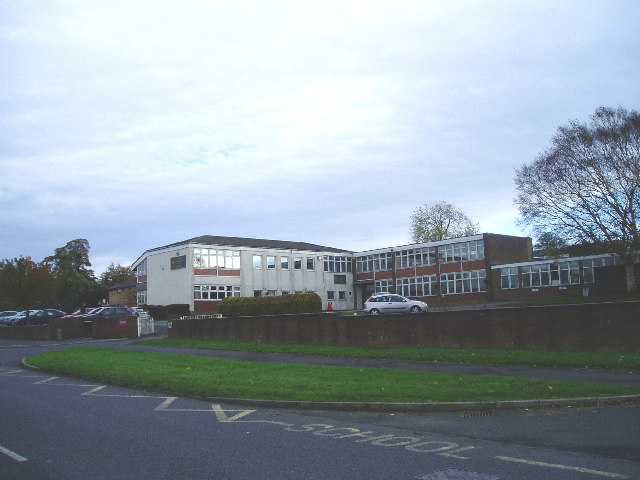 Clitheroe Royal Grammar School (Lower School)